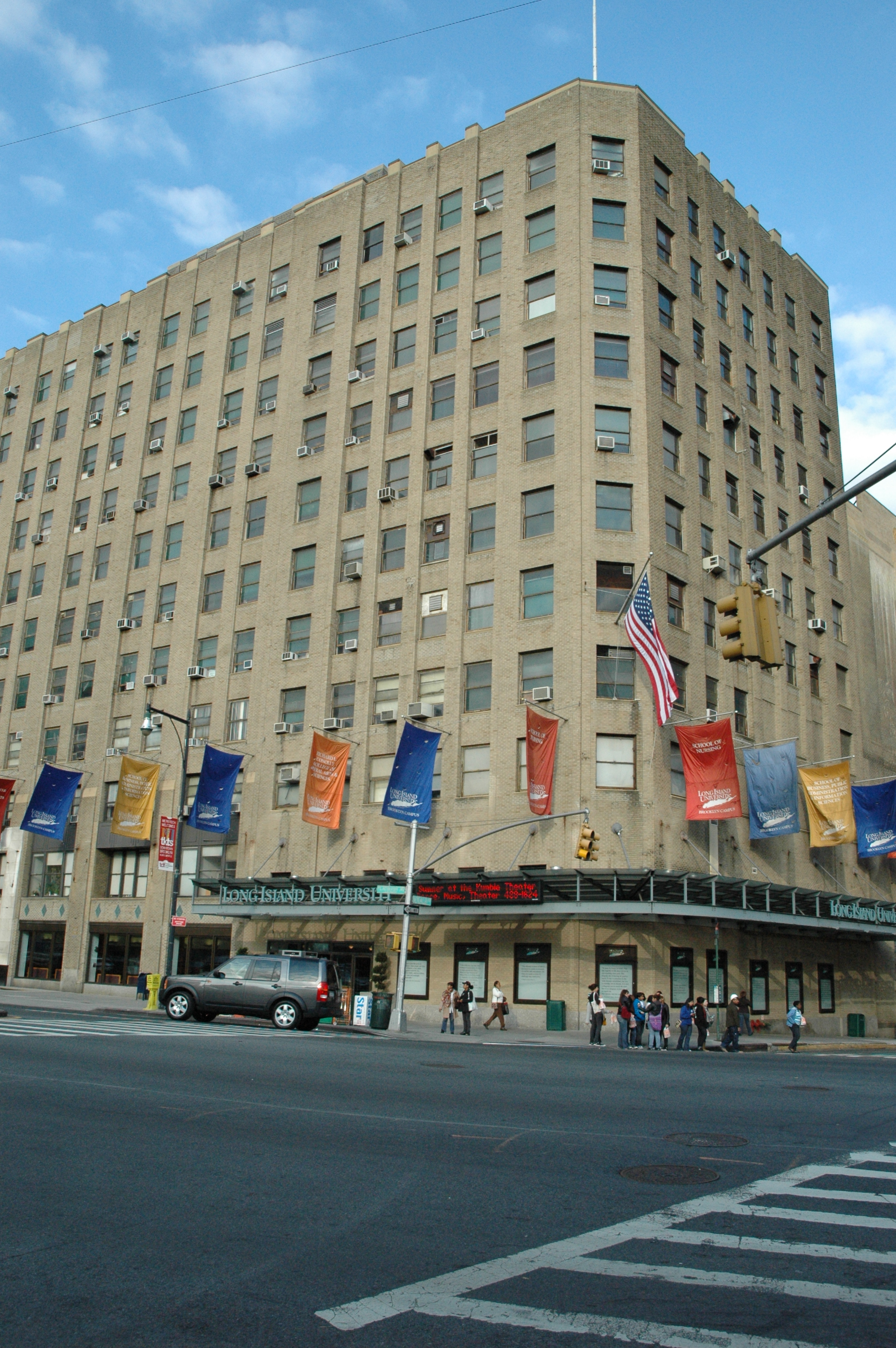 This photo is of Wikis Take Manhattan goal code J38, Long Island University.